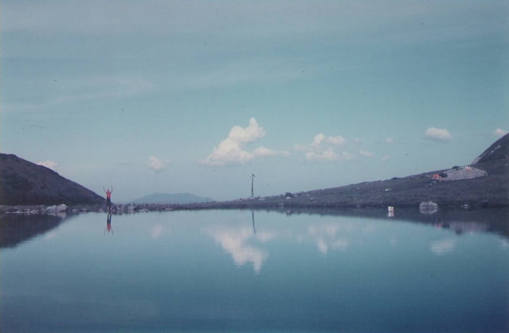 Iezer Lake, jud. Maramures, Rodna Mountains, Eastern Carpathians, Romania